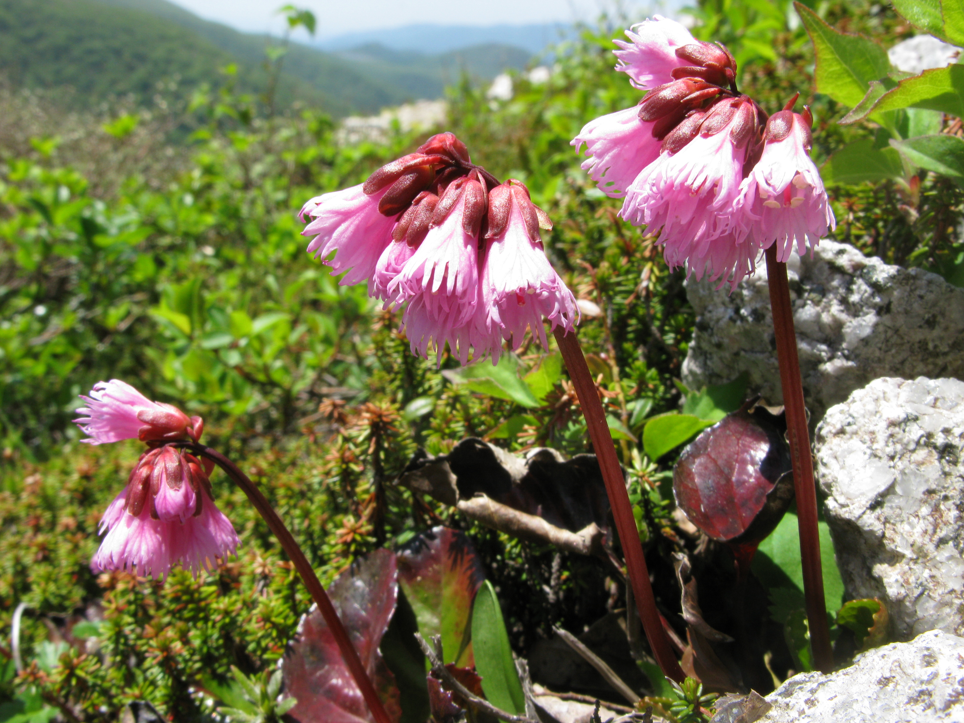 Schizocodon soldanelloides,Aizu area,Fukushima pref.,Japan